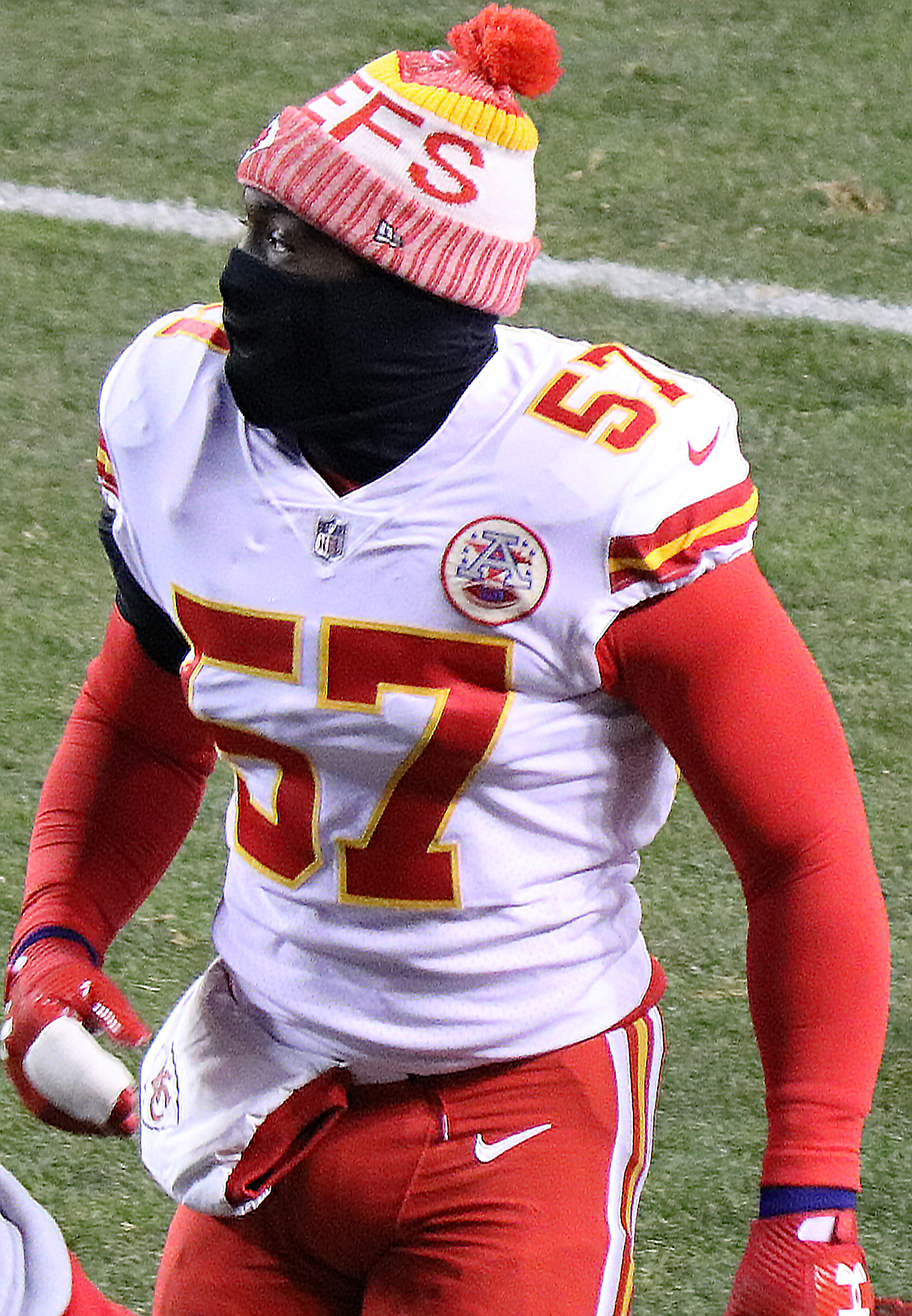 Kevin Pierre-Louis, a National Football League player.